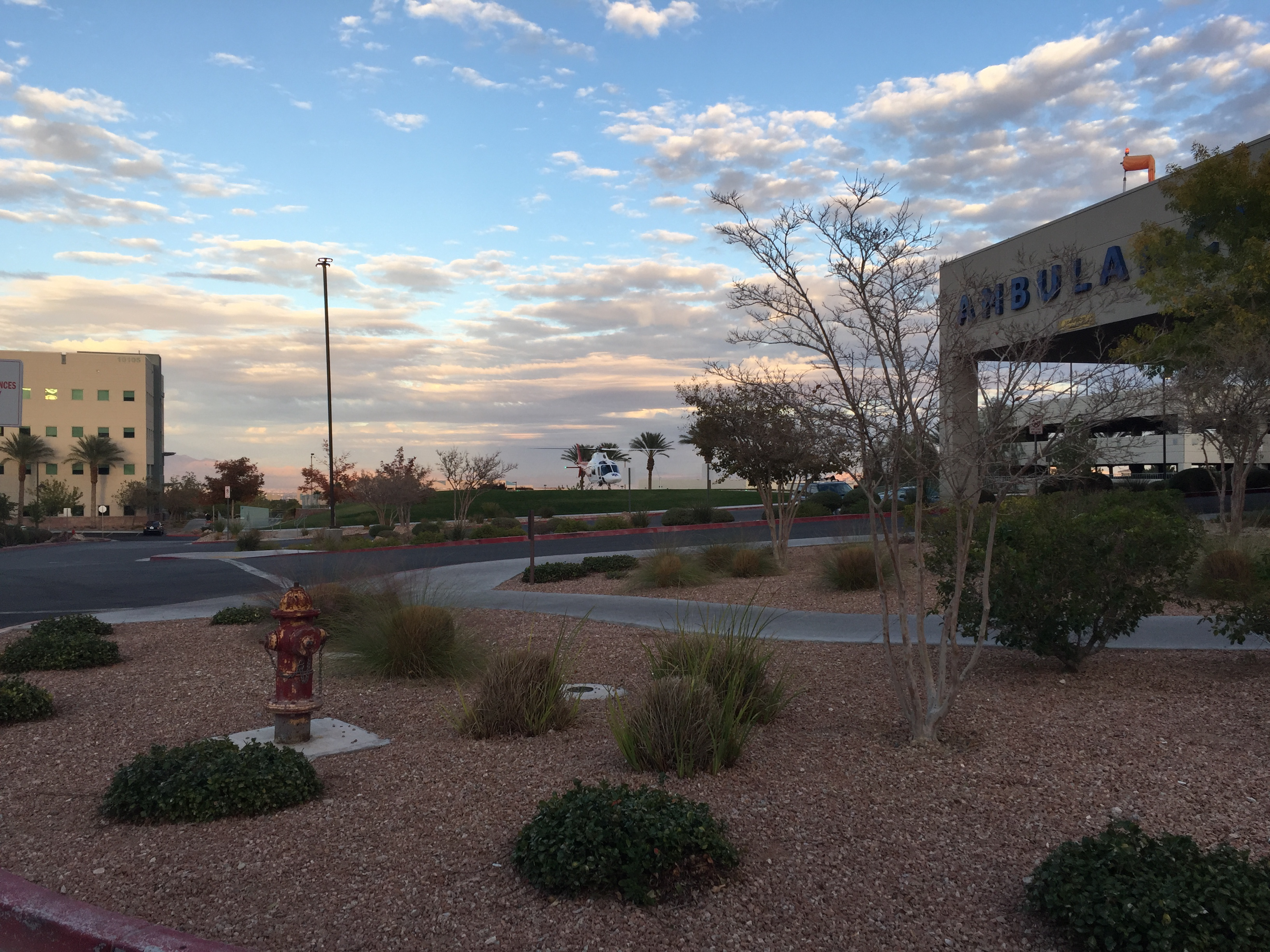 An air ambulance helicopter preparing to depart Summerlin Hospital in Las Vegas, Nevada, USA.